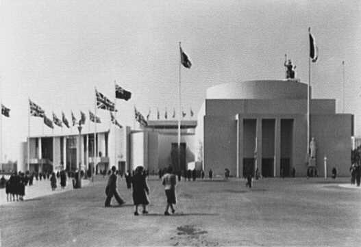 1939 New York World's Fair British Pavilion.